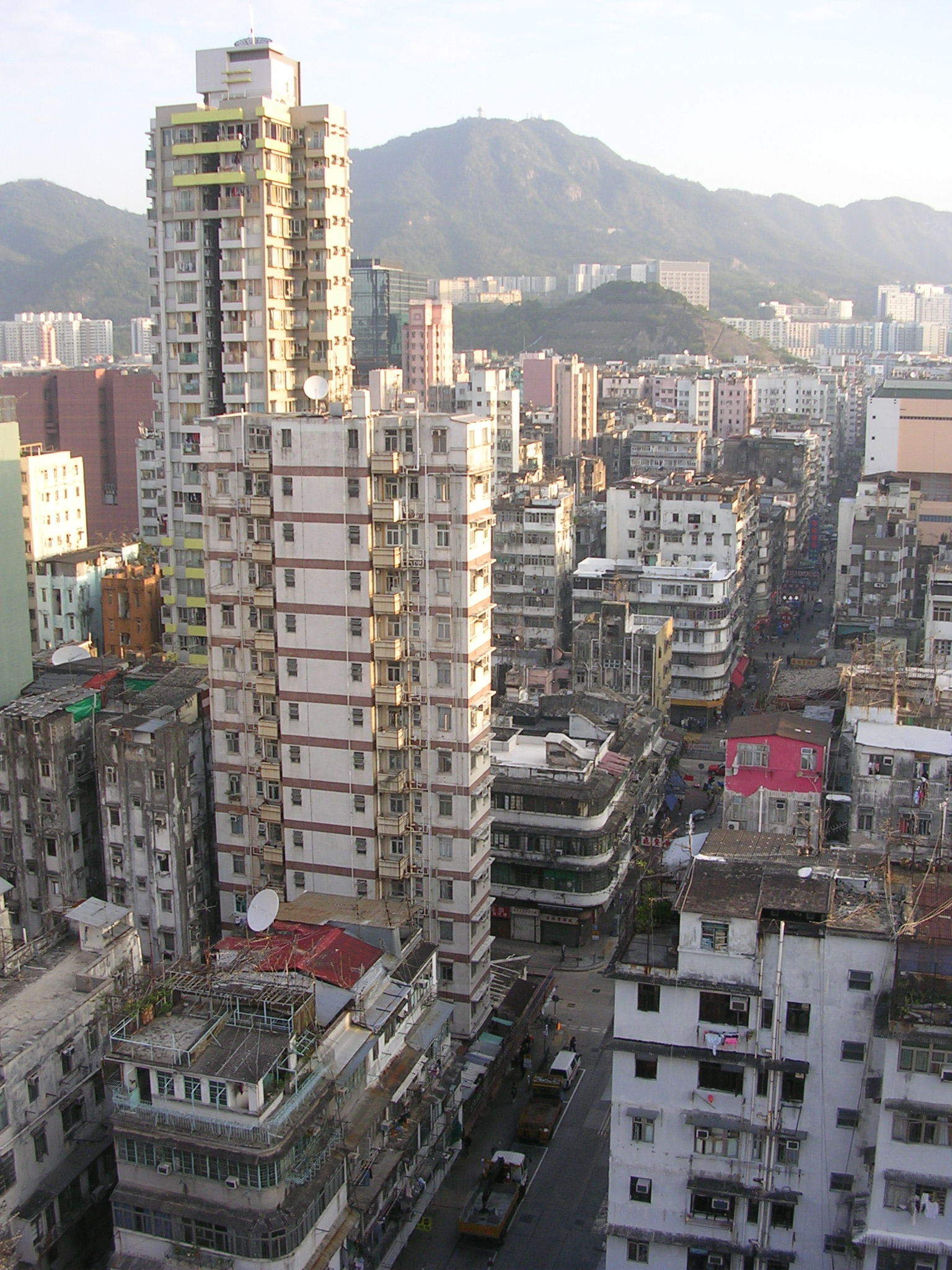 View of Sham Shui Po (深水埗), Hong Kong from the top of a skyscraper.